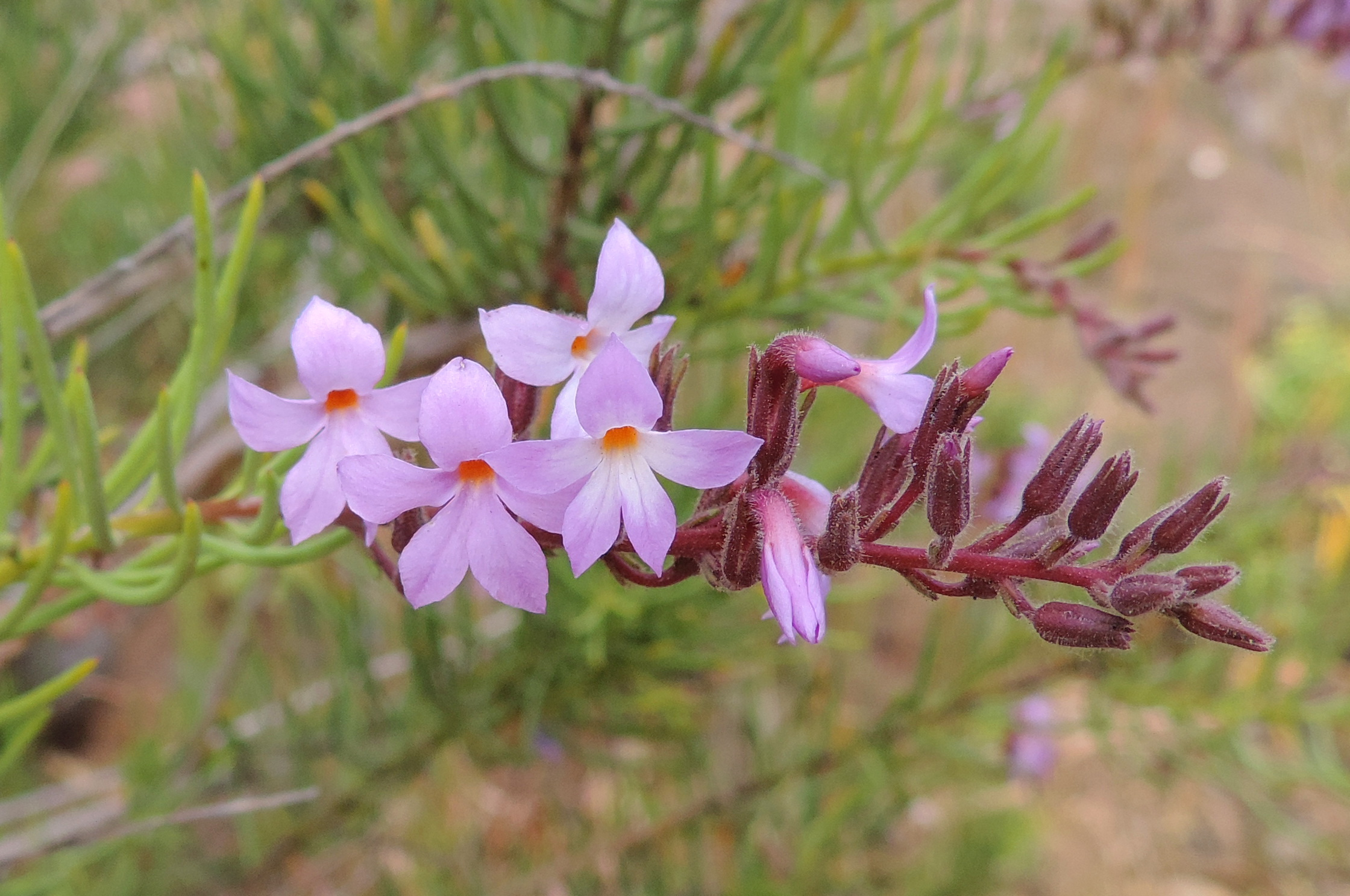 Campylanthus salsoloides in Barranco de Guayadeque (Gran Canaria)